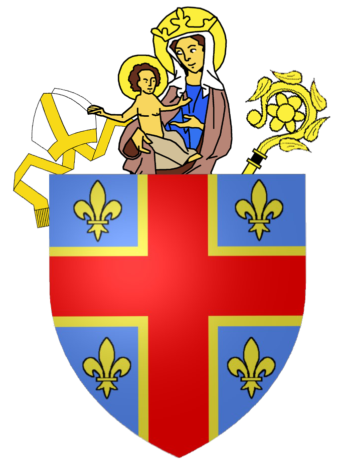 Coat of arms of bishops of Clermont (Clermont-Ferrand - France)